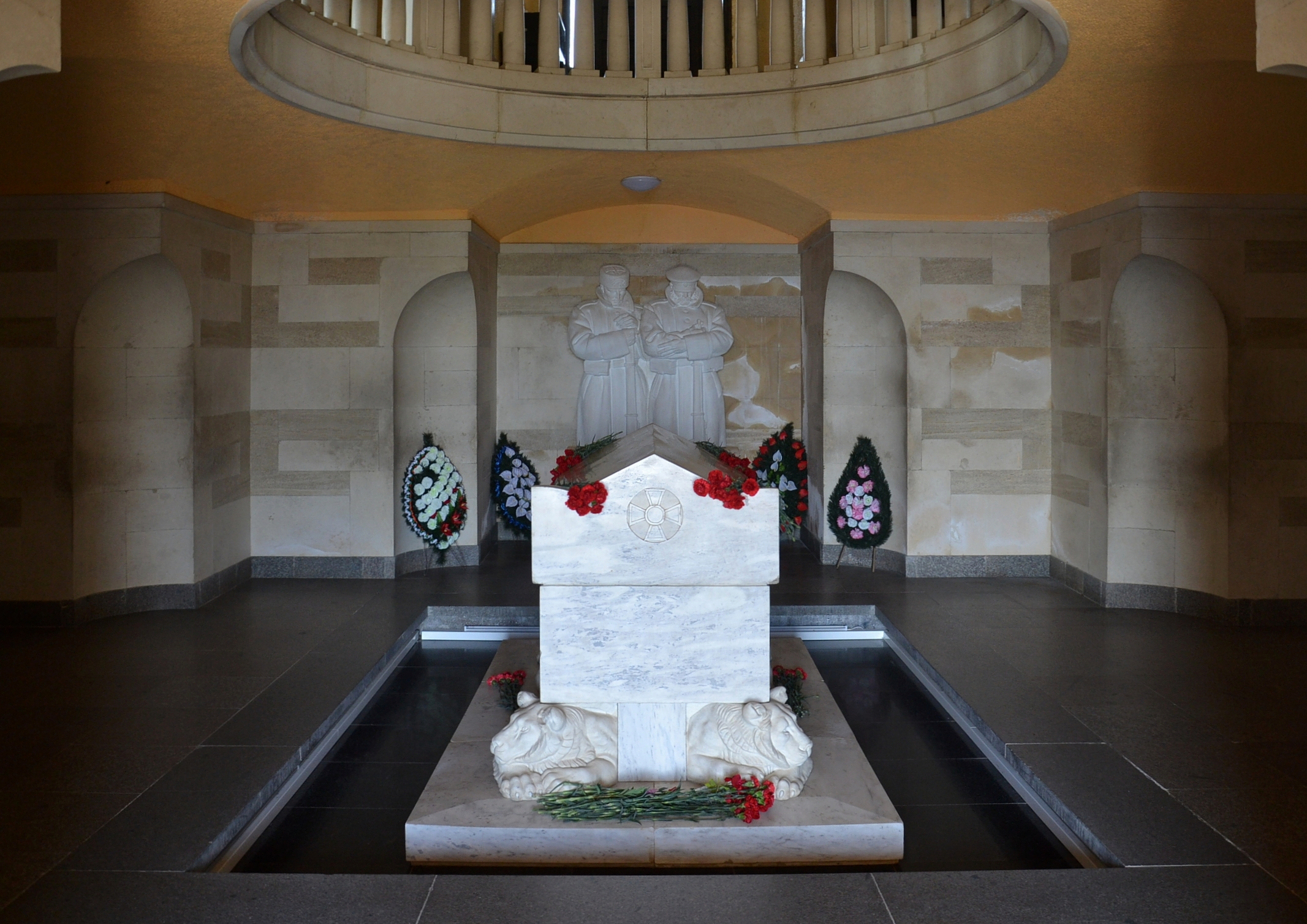 Shipka Memorial, Bulgaria - interior